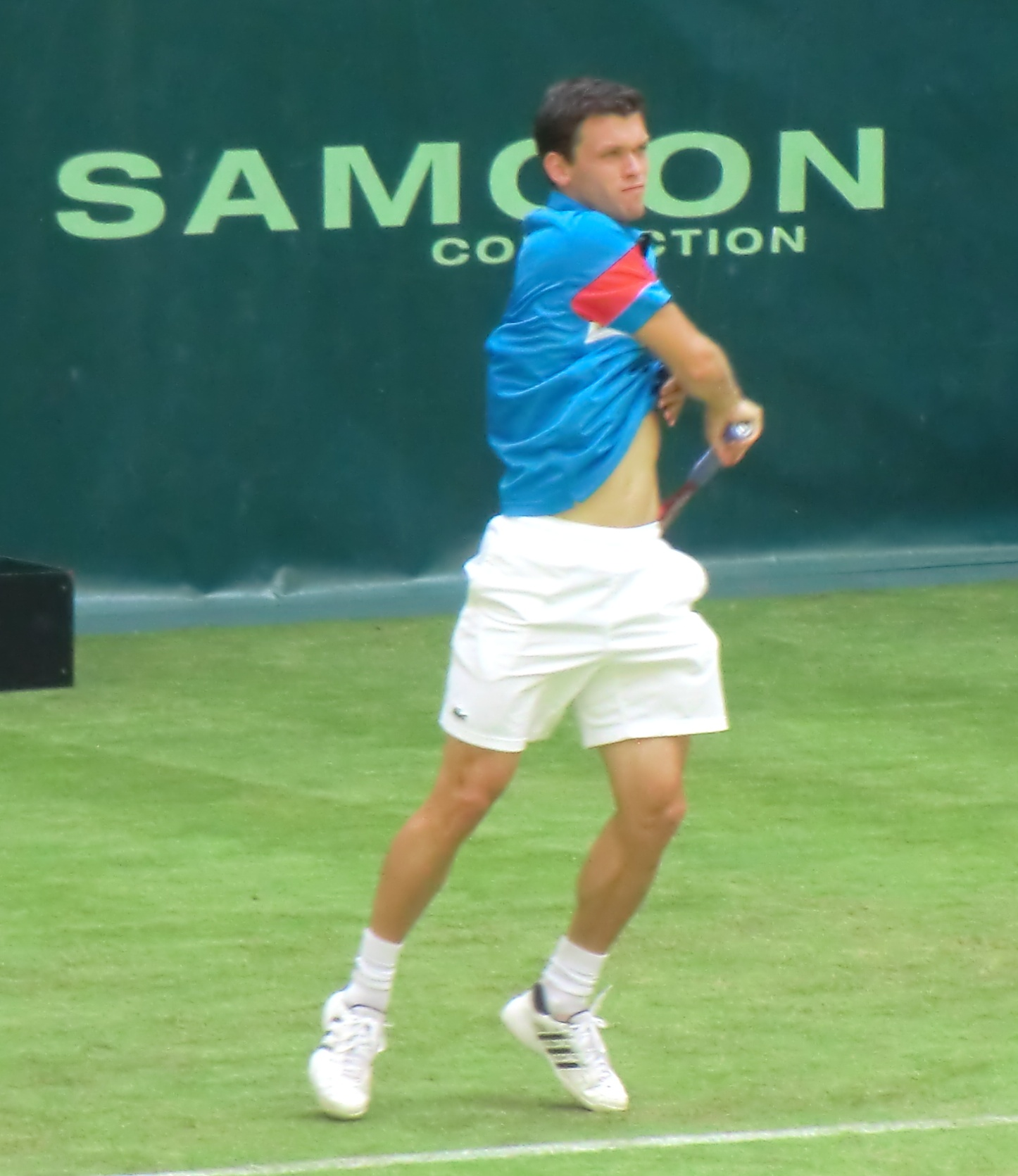 Tobias Kamke during the match versus Julian Reister at the Gerry Weber Open 2011 in Halle